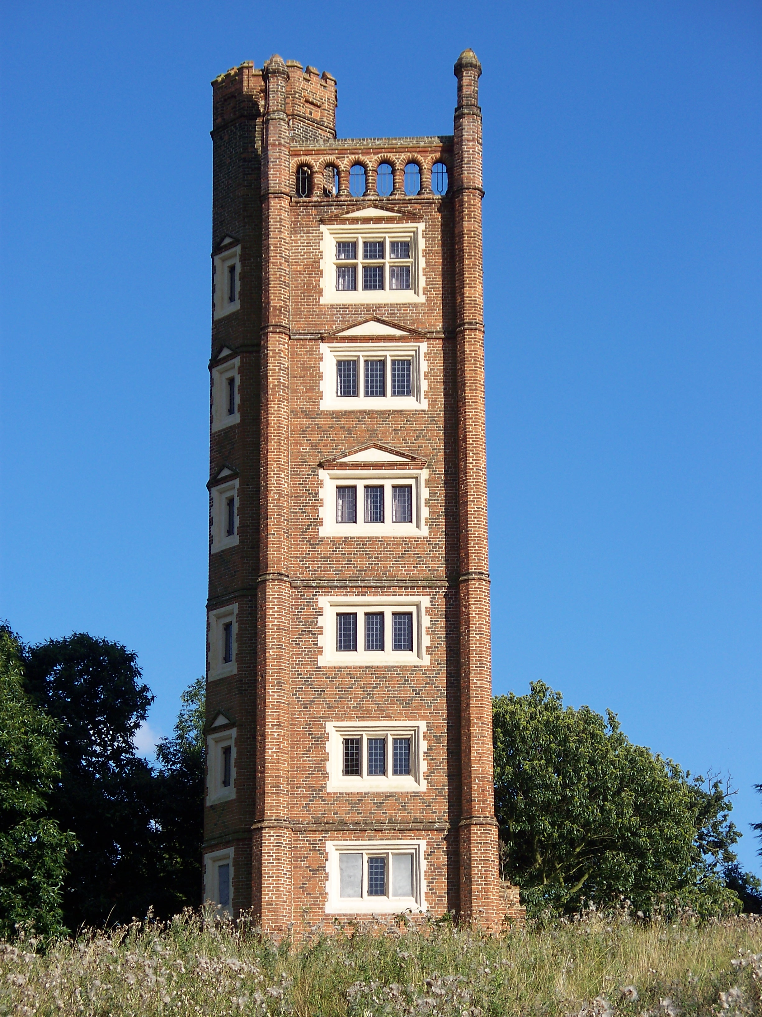 I release this image into the public domain.